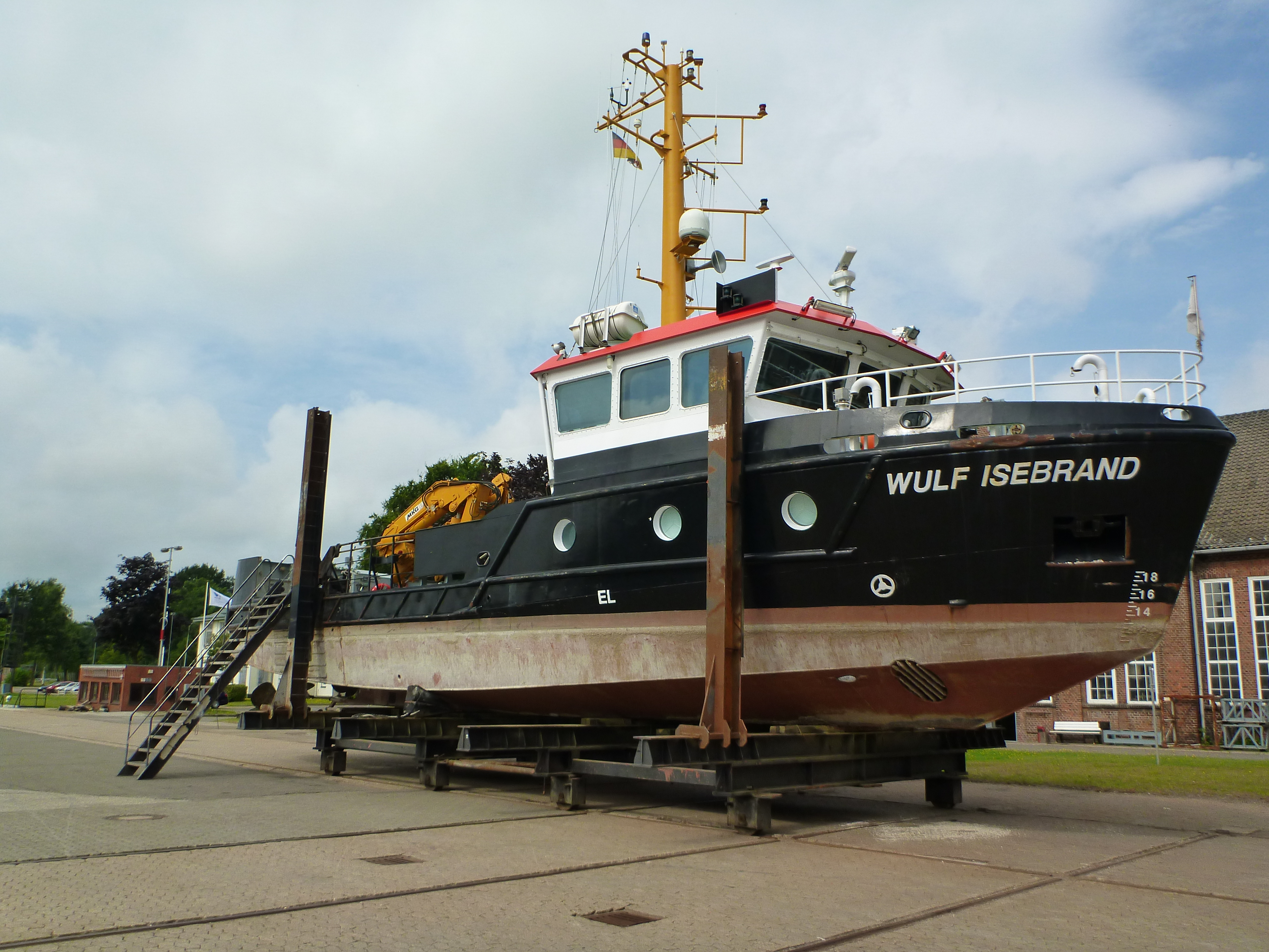 Wulf Isebrand in the yard in Rendsburg, side-view